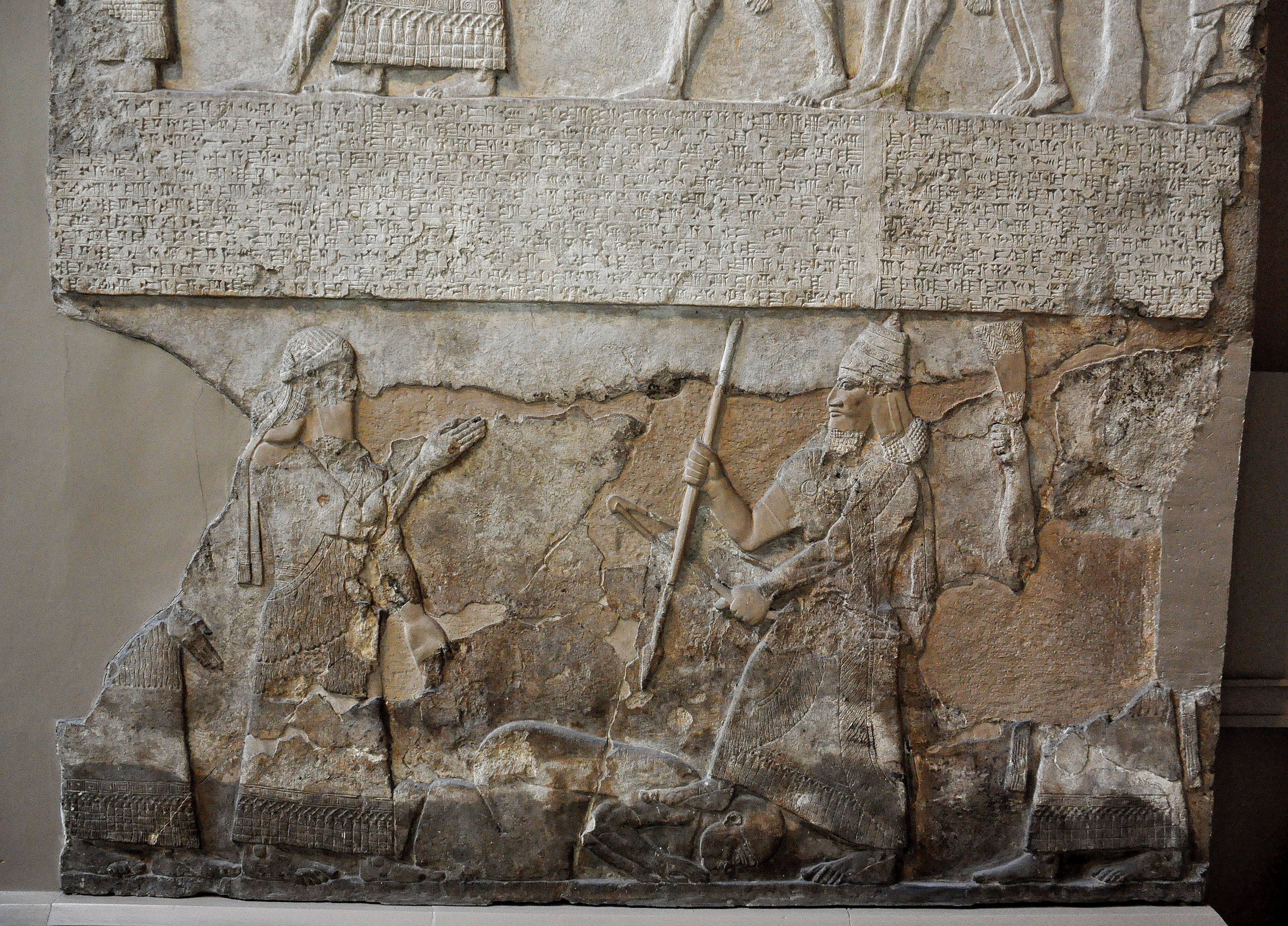 In this alabaster wall relief, the Assyrian king Tiglath-pileser III stands over an enemy's right shoulder. The king is being greeted by a high-ranking official and both are surrounded by attendants. The cuneiform inscriptions above narrate one of the king's Campaign in modern-day Iran. From the Central Palace (re-used in the South-West Place) at Nimrud (modern-day Ninawa Governorate, Iraq), Mesopotamia, Neo-Assyrian period, circa 728 BCE. The British Museum, London.